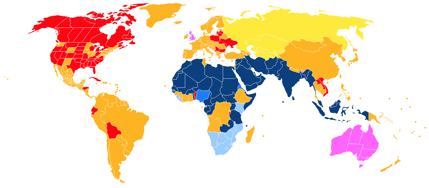 Status of polygamy worldwide Polygamous marriages recognized under civil law Polygamous marriages recognized under civil law in some regions Polygamous marriages performed abroad recognized Customary law recognizes polygamous unions Issue under political consideration No recognition, polygamy legal Polygamy illegal Polygamy illegal, polygamous marriages constitutionally banned